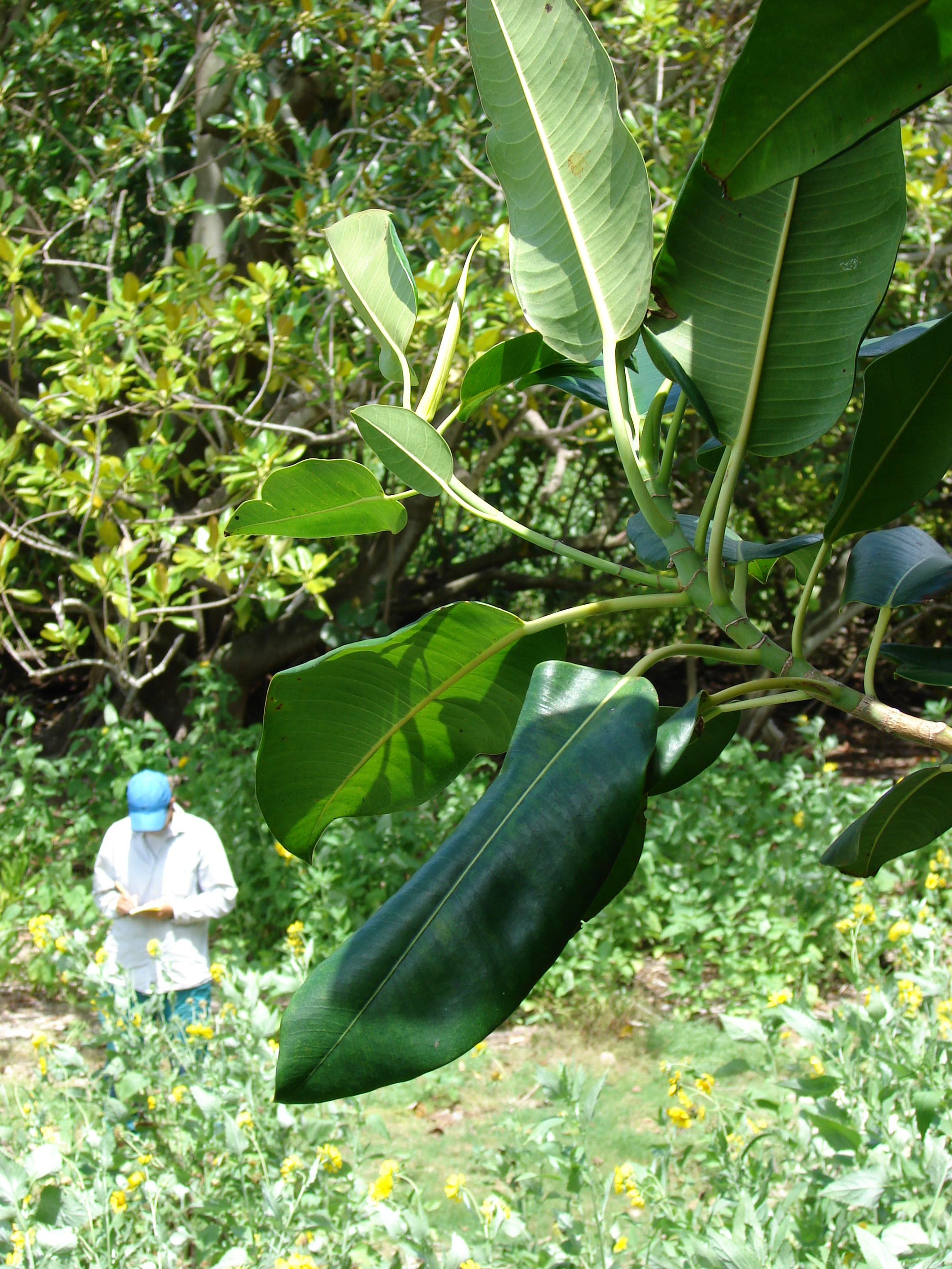 Ficus macrophylla (sapling with Kim by parent plant). Location: Midway Atoll, West Beach Sand Island